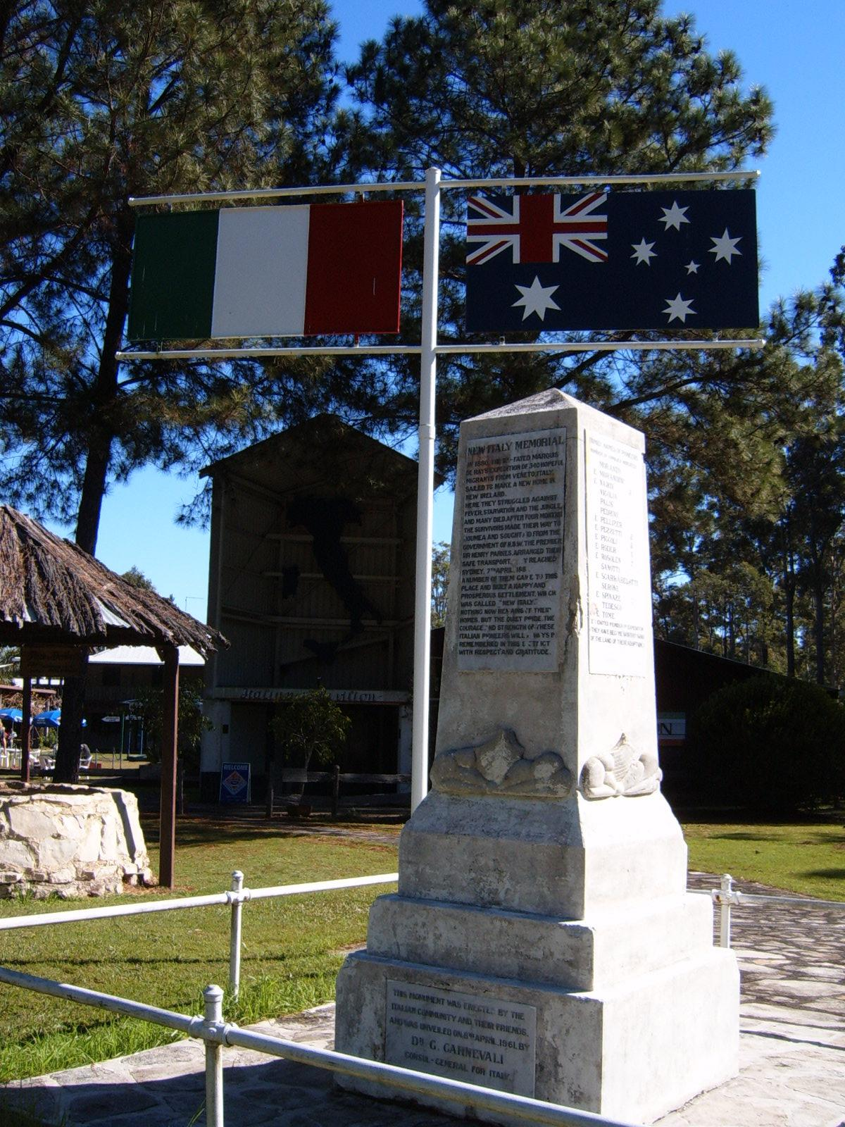 Memorial at New Italy, New South Wales, Australia. Erected 8 April 1961, Dr G. Carnevali, Consul-General for Italy. See Italian Australians#The Early Stage Family names listed on monument (number indicates number of families; E indicates membership of New Ireland expedition): Antonioli (2) E Batistuzzi E Bazzo E Bertoli (2) E Buoro E Gaminiti E Gapelin E Fava Feligietti Flatley Flett Gava (2) E Guariscin Marozin Martinuzzi E Mazzer E Mellare (2) E Morandi Morandini E Nardi Nicola Palis Pedrini Pellizer E Pezzuti (2) E Piggoli (2) E Roder (5) E Rosolen (3) E Sanotti Scarrabelotti E Serone Spinaze (3) E Tedesco Tome E